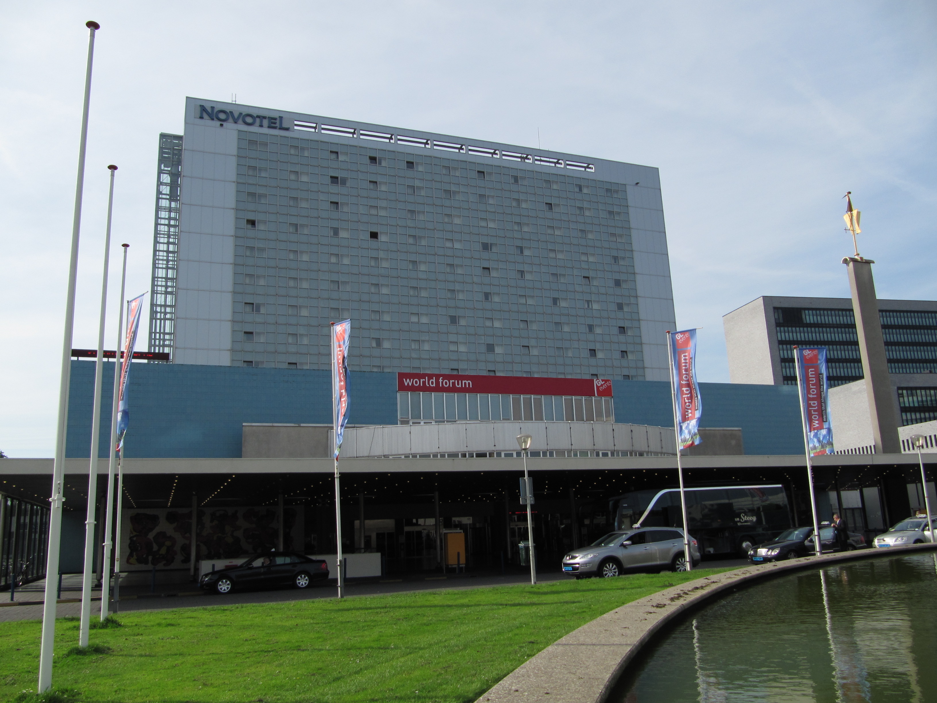 World Forum Den Haag